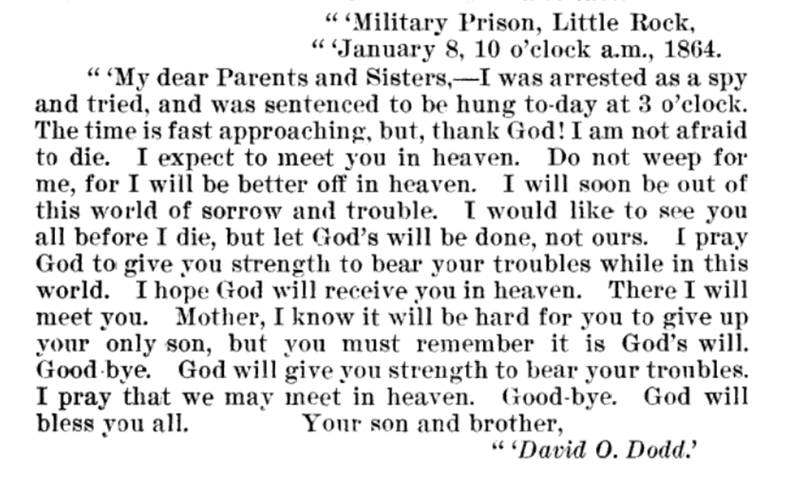 Letter written by David O. Dodd before execution, from An illustrated history of Monroe County, Iowa, 1896, p. 109.